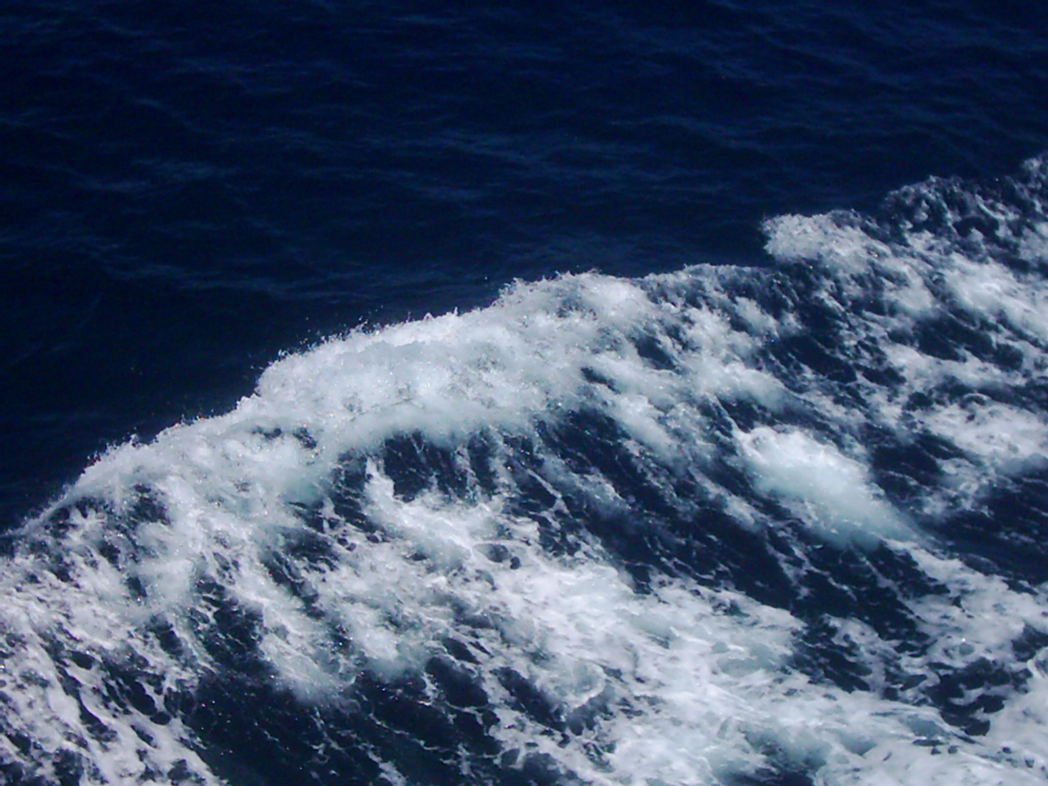 Water waves in Adriatic Sea.